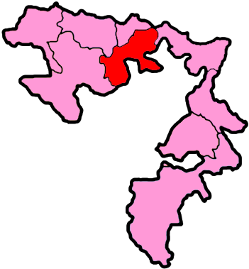 The fifth electoral unit of Republika Srpska (NSRS) shown within Bosnia and Herzegovina.